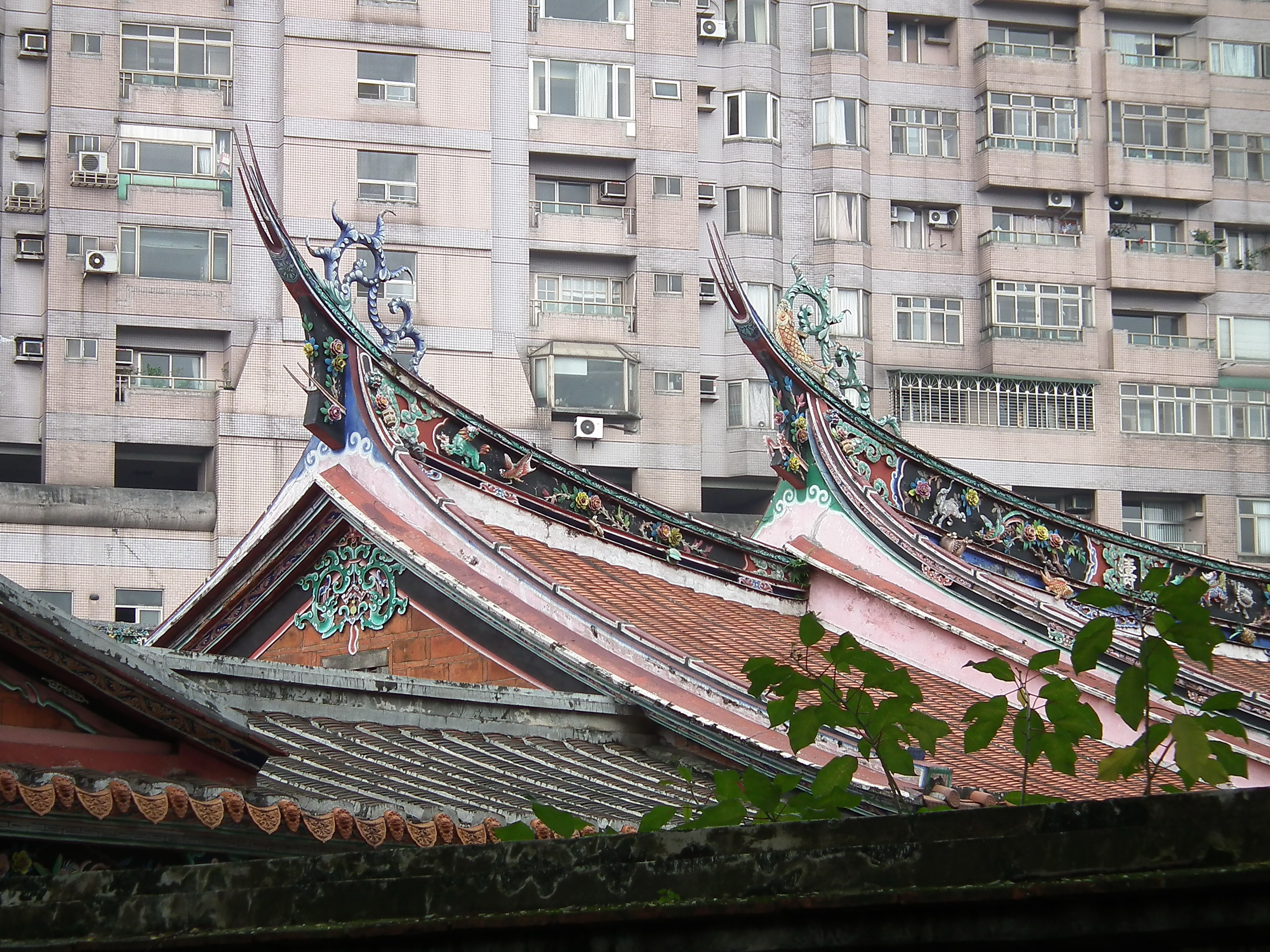 林家三落大厝燕尾脊飾 The Swallow-tail-shaped Decoration on the Roof Ridge of the Lin Family Mansion